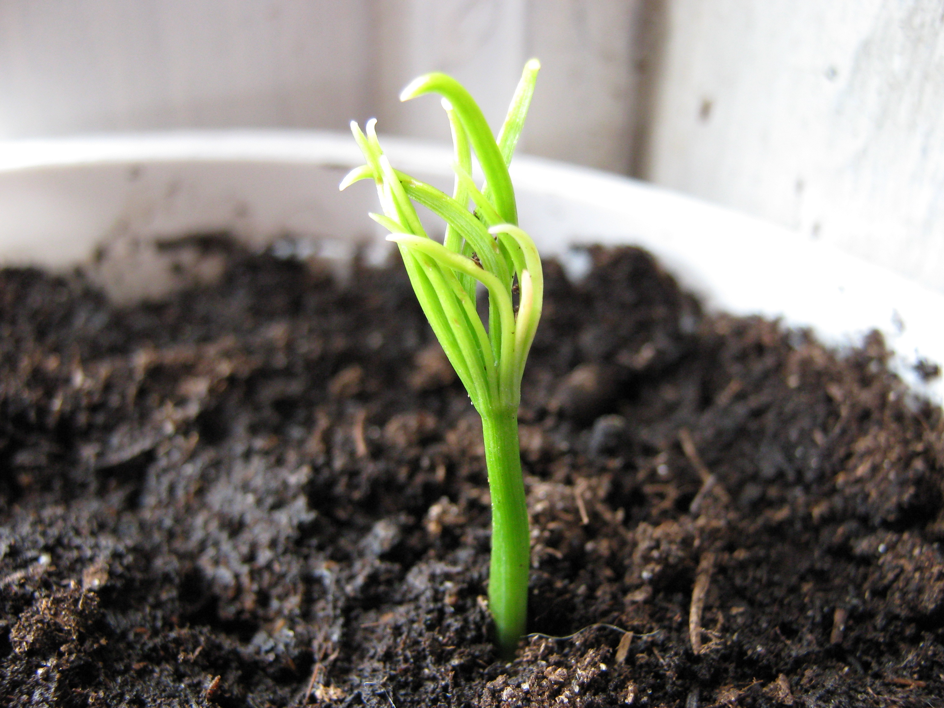 Pinus cembra (Swiss Pine) shoot, brown seeds were received from dried cone. Seeds were selected and separated from empty ones. The tip of the seed was carefully removed to facilitate sprouting.